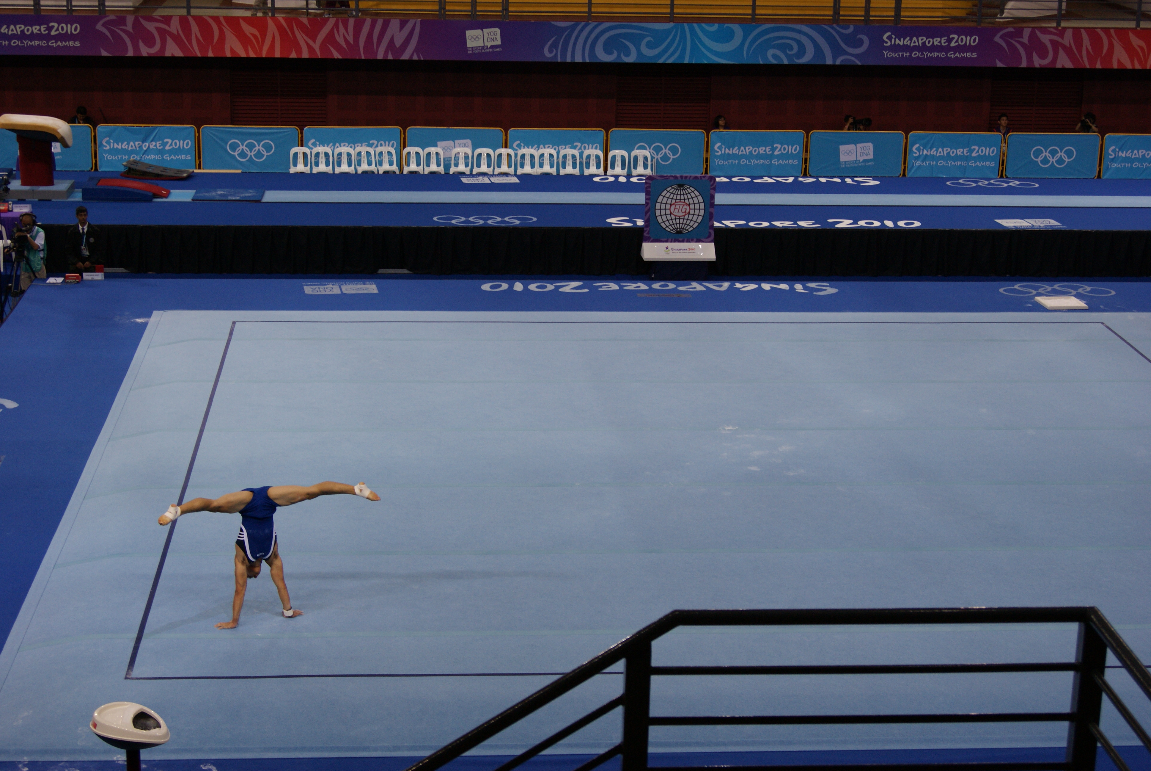 A competitor executing a floor exercise during Men's Qualification – Subdivision 1 of the artistic gymnastics competition at the 2010 Summer Youth Olympics at Bishan Sports Hall, Singapore.